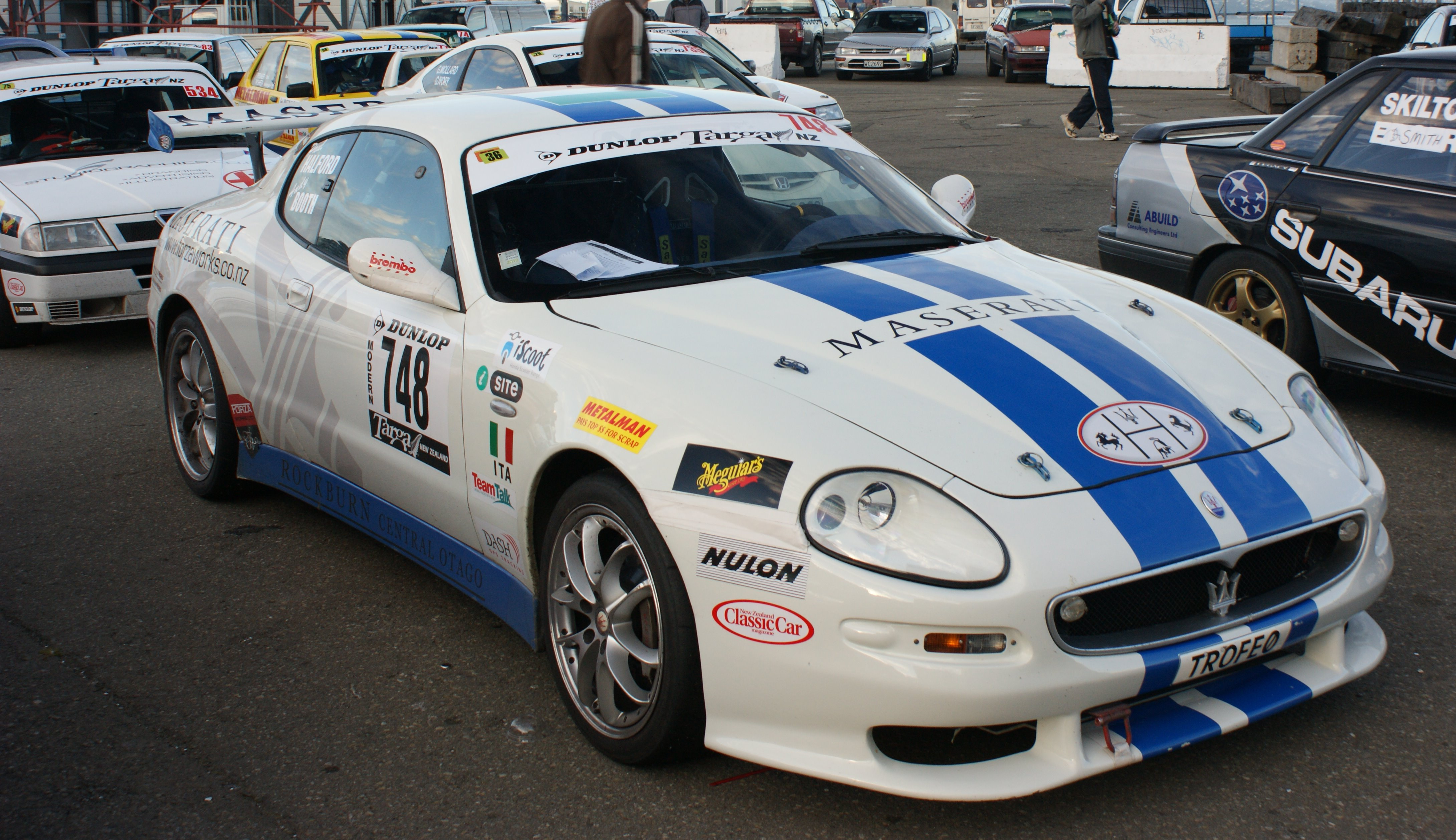 2003 Maserati 4200 Coupe